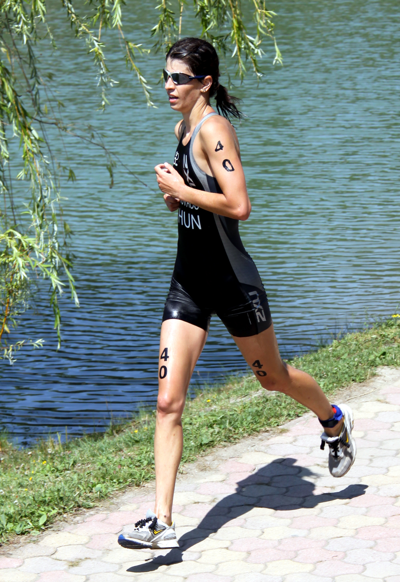 Zsofia Kovacs triathlon Tiszaujvaros 2009